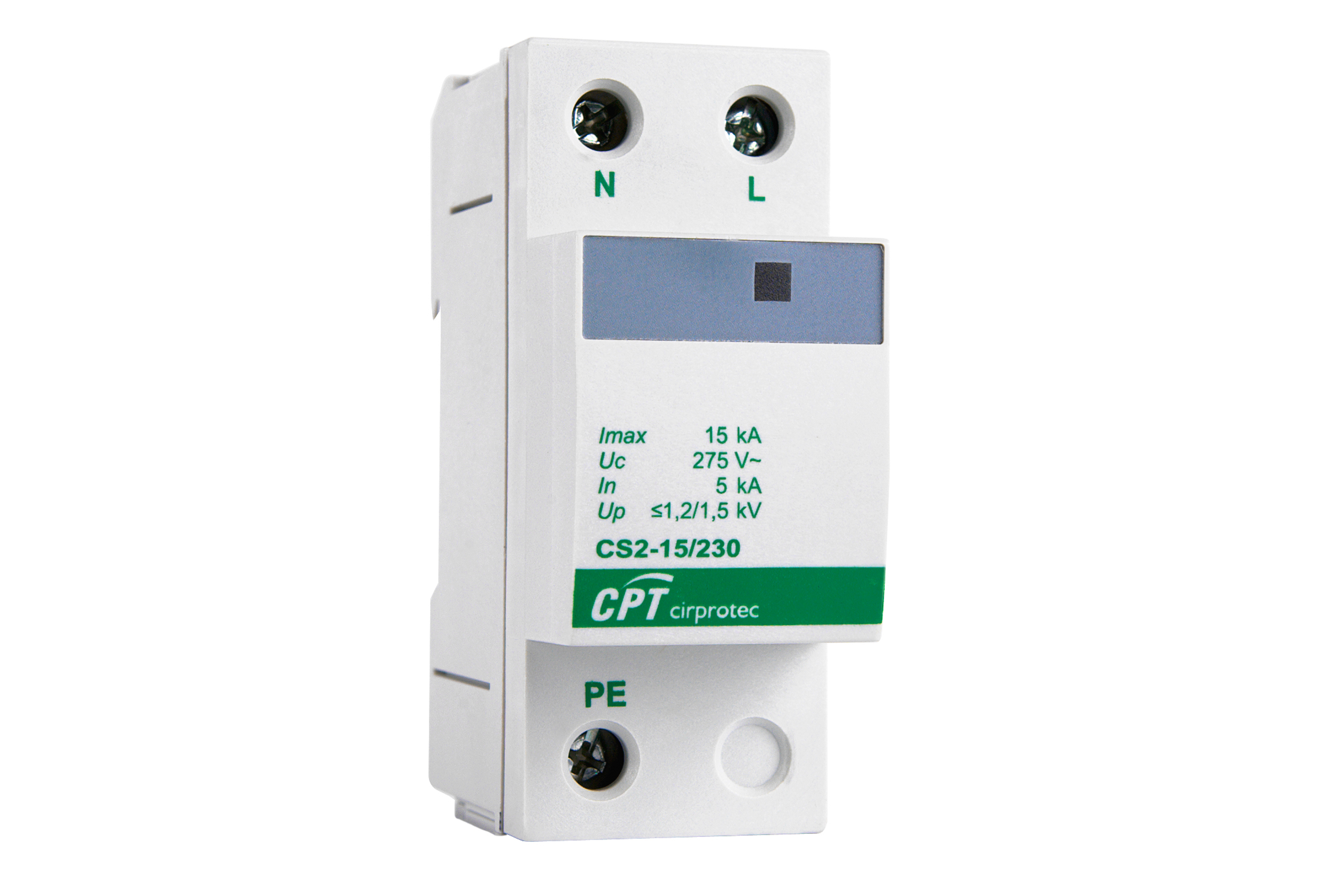 Transient protector